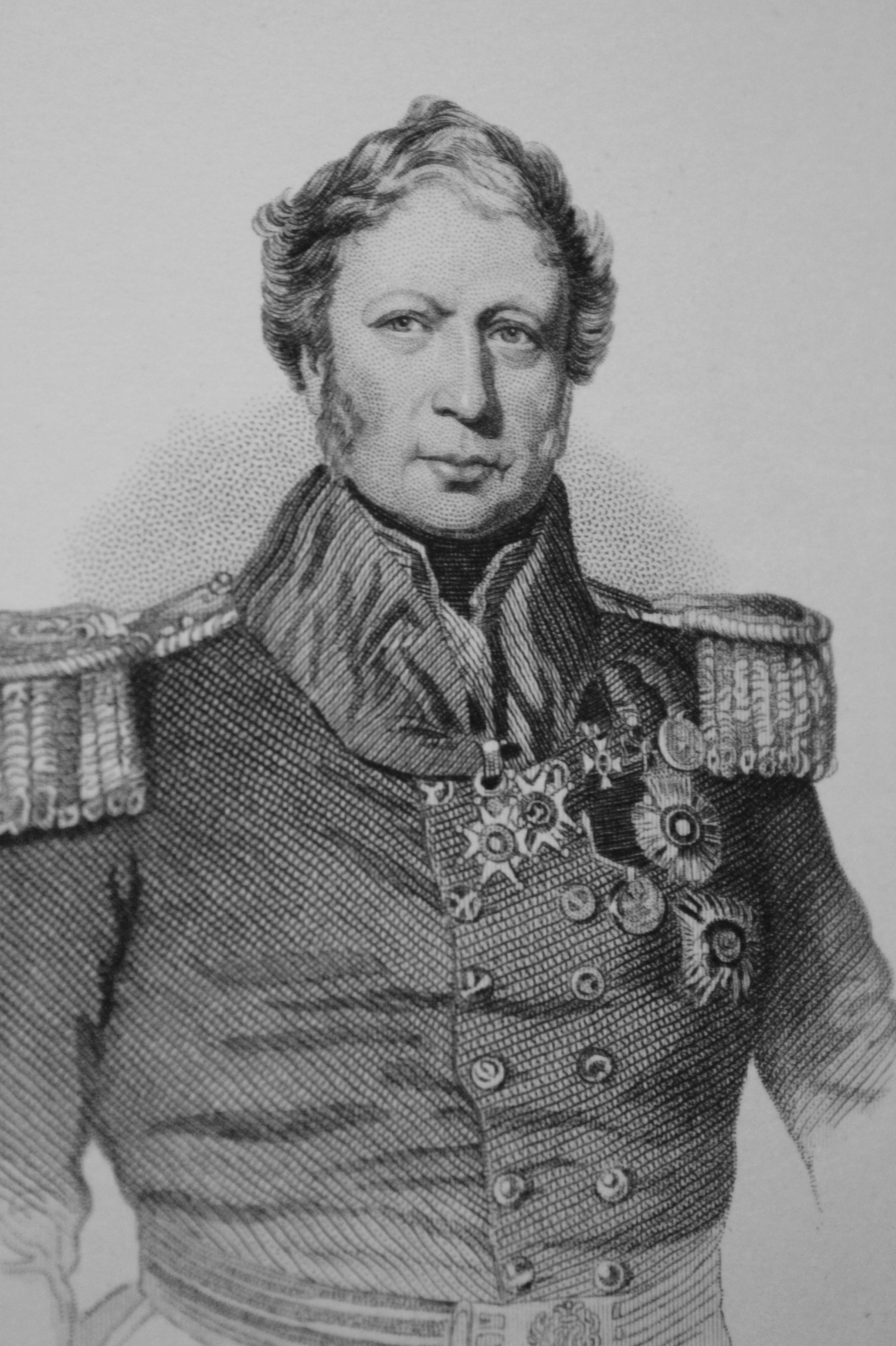 Sir James Macdonnell